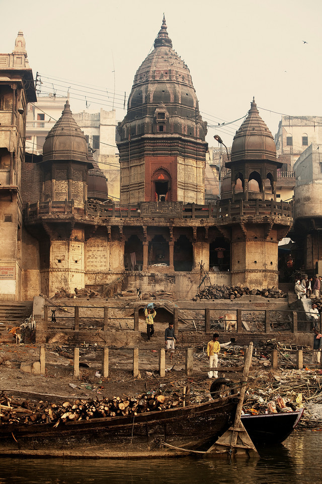 In keeping with the “World’s most mysterious places” theme: The sun rises across from Manikarnika Ghat. From Wikipedia: “It is one of the oldest ghats in Varanasi. It is revered in Hindu religion. When Mata Sati (Aadi shakti mata)sacrificed her life & set her body ablaze after Raja Daksh Prajapati (one of the sons of Lord Brahma)tried to humiliate Lord shiva in a Yagya practiced by Daksh. Lord Shiva took her burning body to Himalay. While going to Himalaya Mata Sati’s parts of body started falling on earth. Lord Shiva established Shakti Peeth wherever Sati’s body had fallen. At Manikarnika ghat, Mata Sati’s Ear’s ornament had fallen.”